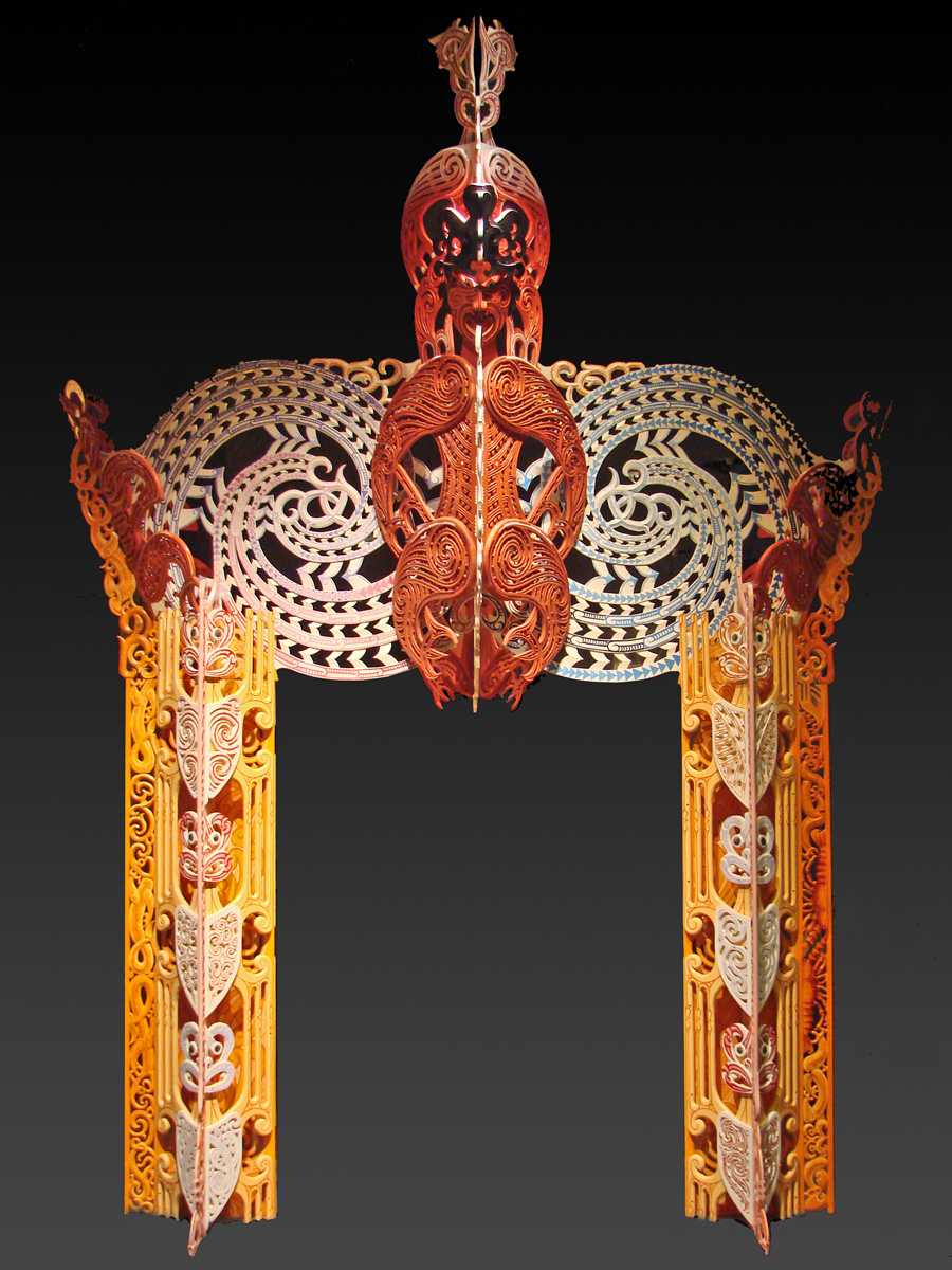 Porte, Kuwaha, Te Whare Tutu, par Cliff Whiting and members of the Takahanga Marae, Kaikoura, 1993 Nouvelle Zélande Musée de Dahlem, Berlin